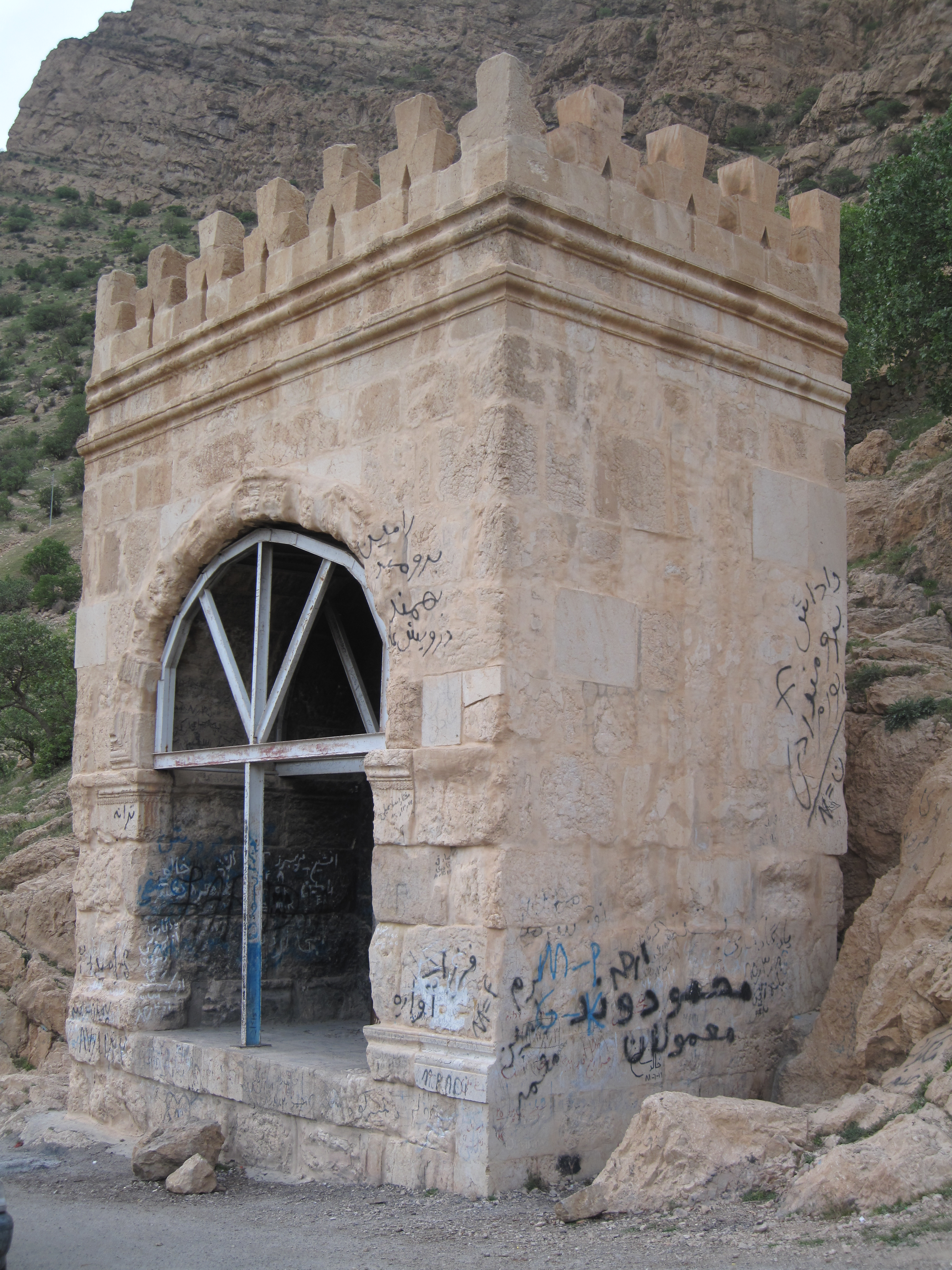 Taq-e Gara